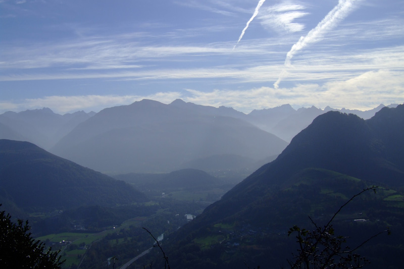 Taken by User:Kallenovsky from the Pic du Jer in late October. (favorites collection)